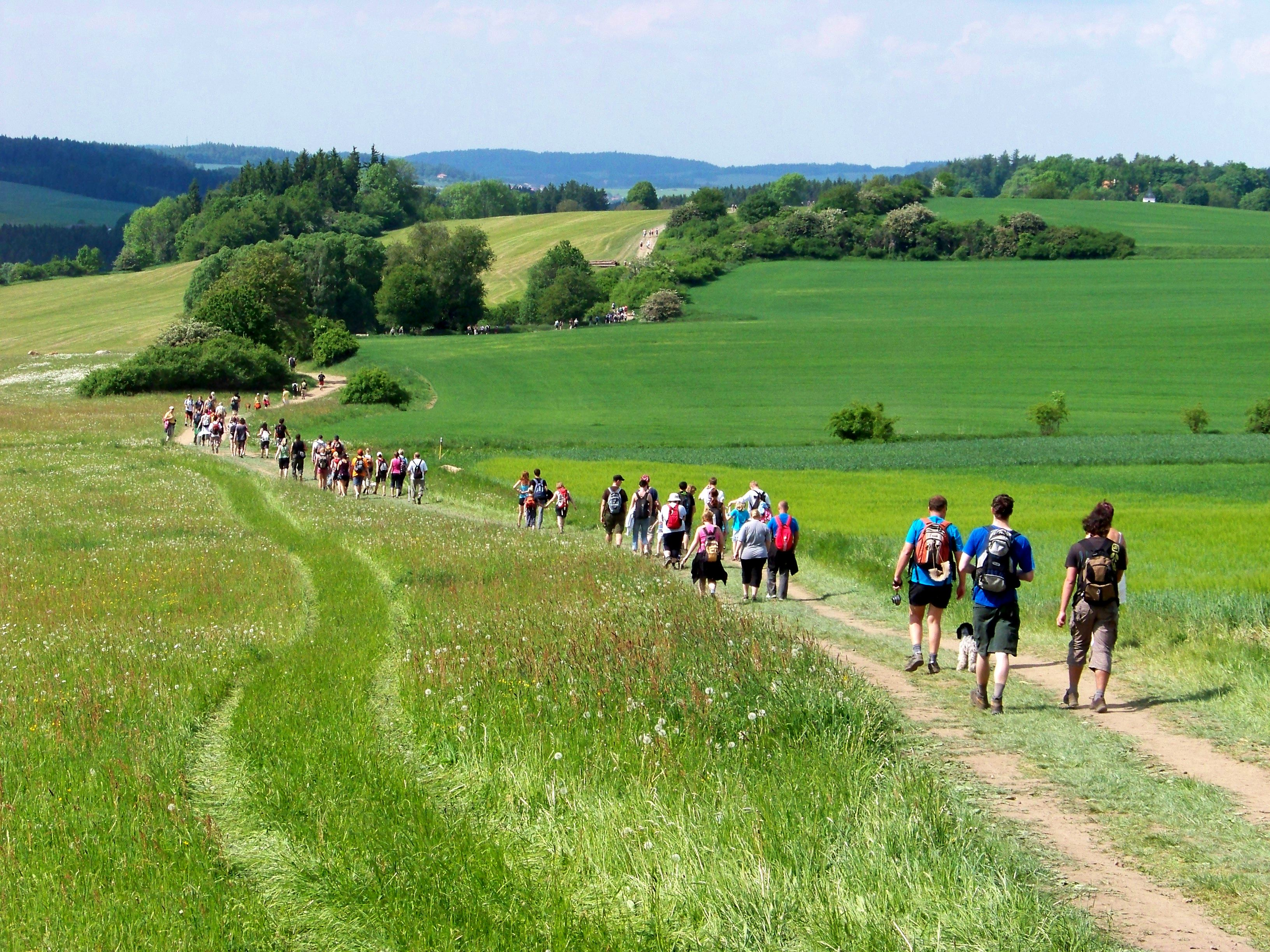 Střezimíř-Dolní Dobřejov and Červený Újezd-Milhostice, Benešov District, Central Bohemian Region, the Czech Republic. A way from Větrov to Červený Újezd.